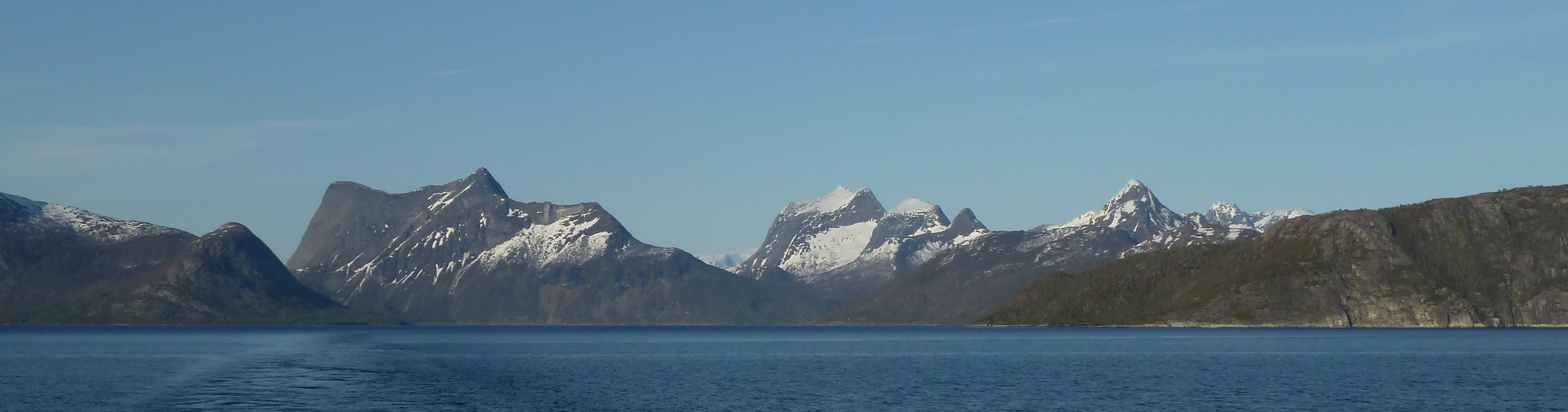 Skrovkjosen is a part of the Tysfjord in Nordland, Norway.